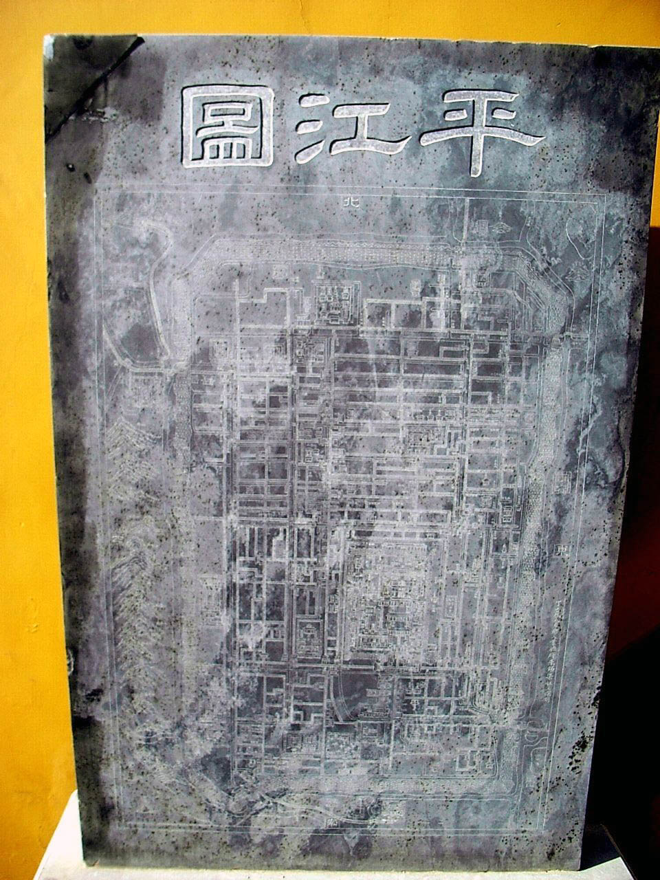 Pingjiangtu, A city map of Song Dynasty, Suzhou